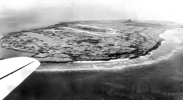 Aerial photo of Ie Shima Island, off the northwest coast of Okinawa, 1945 looking east over 77th Division landing beaches, toward the Pinnacle. Marked are Green Beach 1, where the 1st and 2d Battalions, 306th landed, , and Red 1 and Red 2, landing beaches of the 3d and 1st Battalions, 305th, respectively. Heaviest fighting took place on the eastern end of the island (below), where the town of Ie can be seen between southern beaches and the Pinnacl